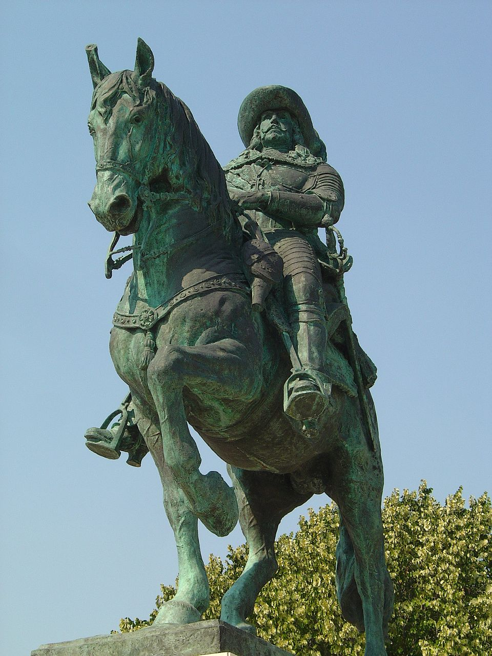 Statue of António Luís de Meneses in Cantanhede, Portugal